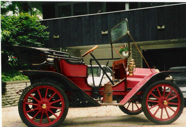 1911 Buick Model 14 serial # 3252,currently undergoing restoration. Owned by Joe Kieliszek, Walton Hills, OH.